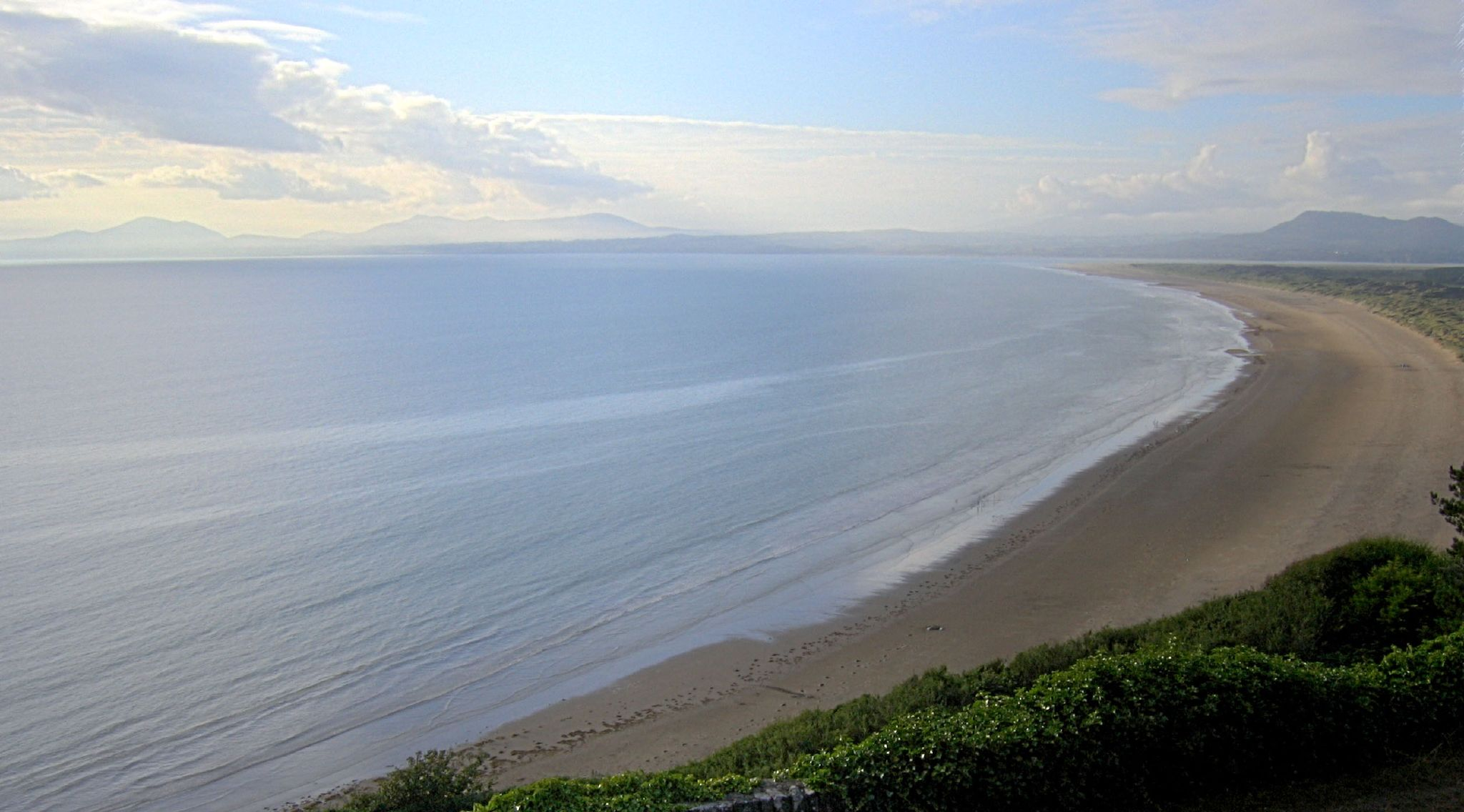 Cardigan Bay panorama, Wales